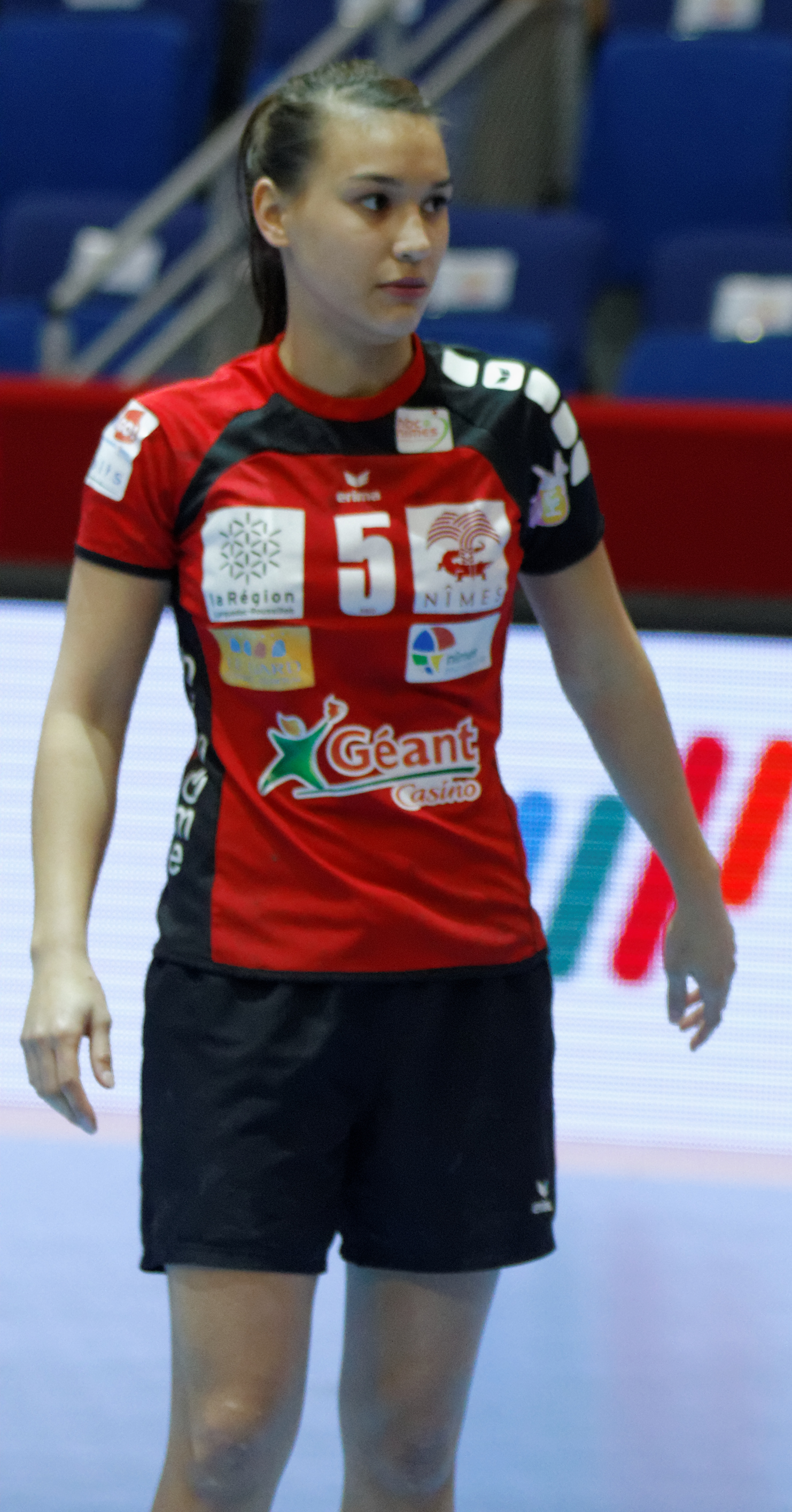 Final of the Women's handball French cup 2013. Handball Cercle Nîmes vs Issy Paris Hand, stadium Pierre-de-Coubertin at Paris.